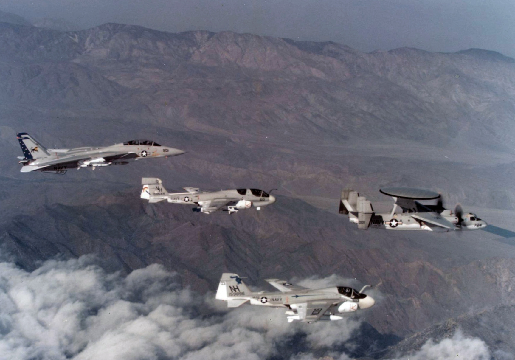 Four U.S. Navy aircraft assigned to Carrier Air Wing 11 (CVW-11) from the aircraft carrier USS Kitty Hawk (CV-63) in flight, in 1977: (l-r) Grumman F-14A Tomcat (BuNo 159863) from fighter squadron VF-213 Black Lions; Grumman EA-6B Prowler (BuNo 158544) from electronic countermeasures squadron VAQ-131 Lancers; Grumman A-6E Intruder (BuNo 159896) from attack squadron VA-52 Knightriders; Grumman E-2C Hawkeye (BuNo 160011) from airborne early warning squadron VAW-122 Steeljaws.